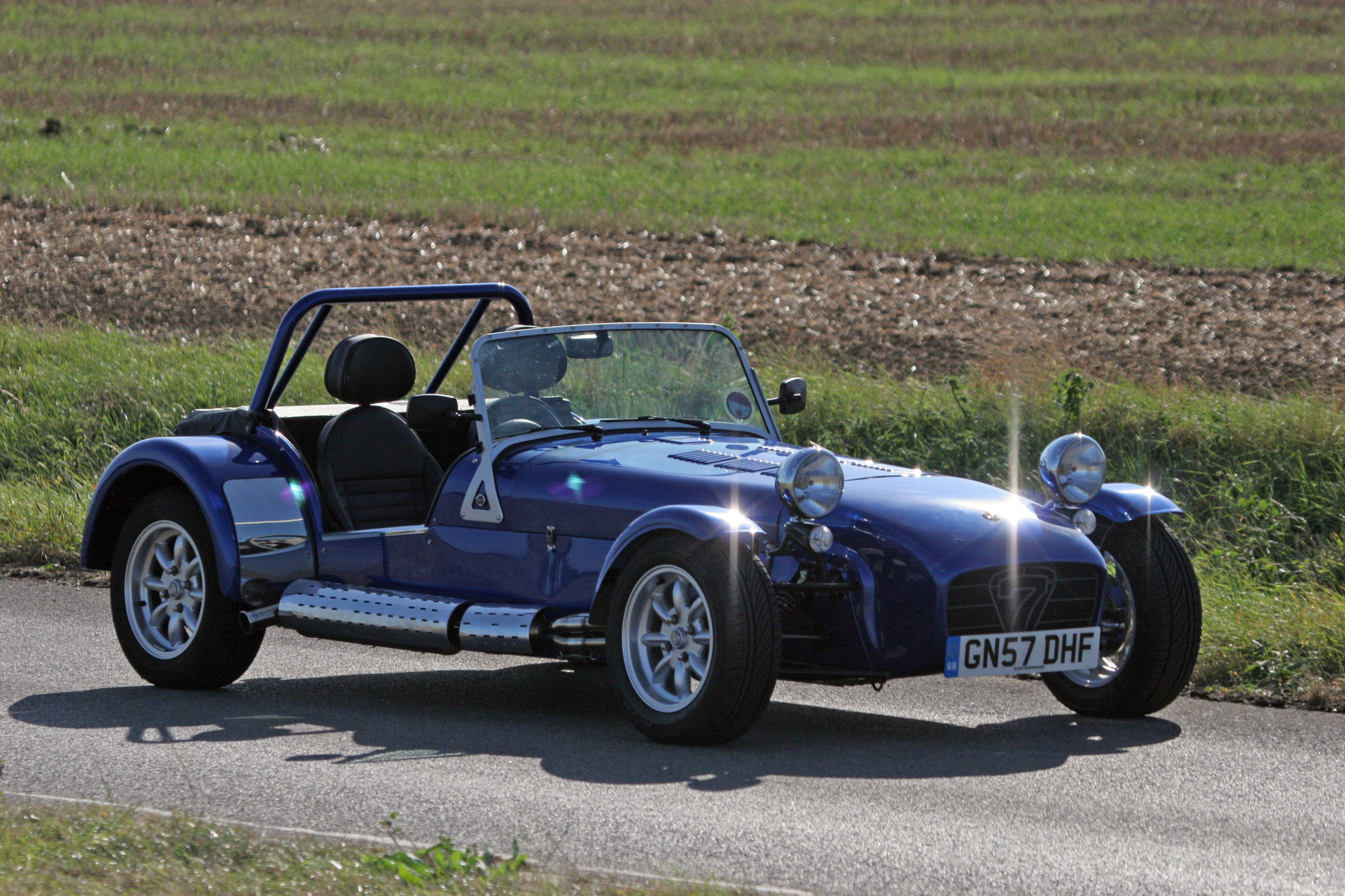 Ah, will it ever look this shiny and new again?